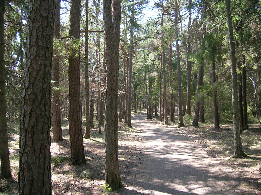 Picture of the forest called Hoveskogen, Tromøy, Norway